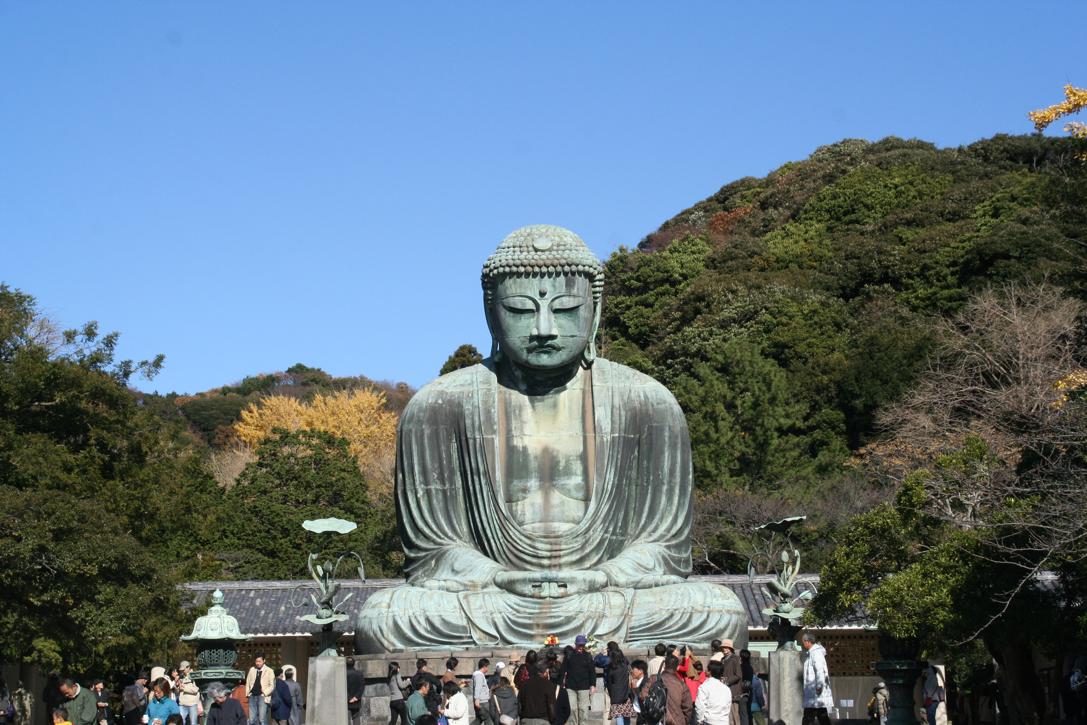 Kamakura Daibutsu in December 2008